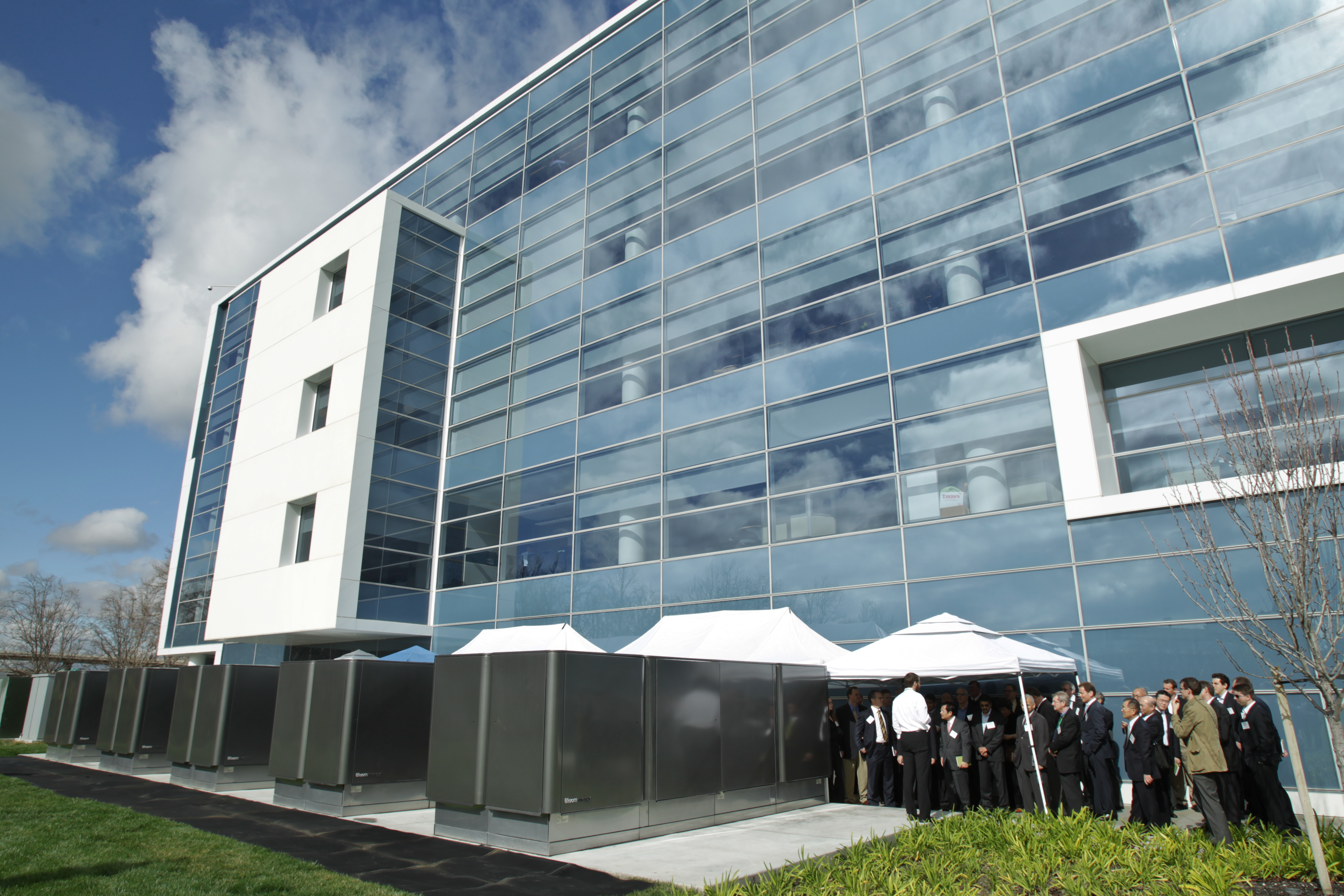 Bloom Energy Servers at eBay, Photo credit: Jakub Mosur